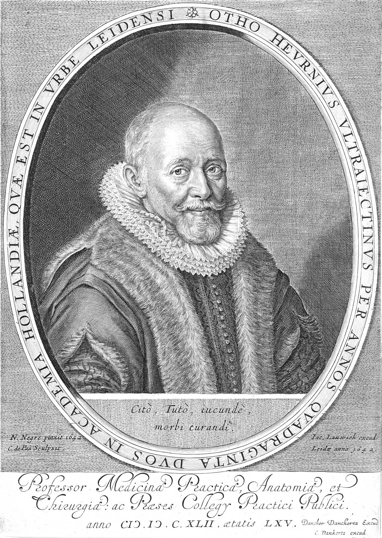 Otto Heurnius (or: Otto van Heurne, Otto van Hornes; (1577-1652) Dutch physician